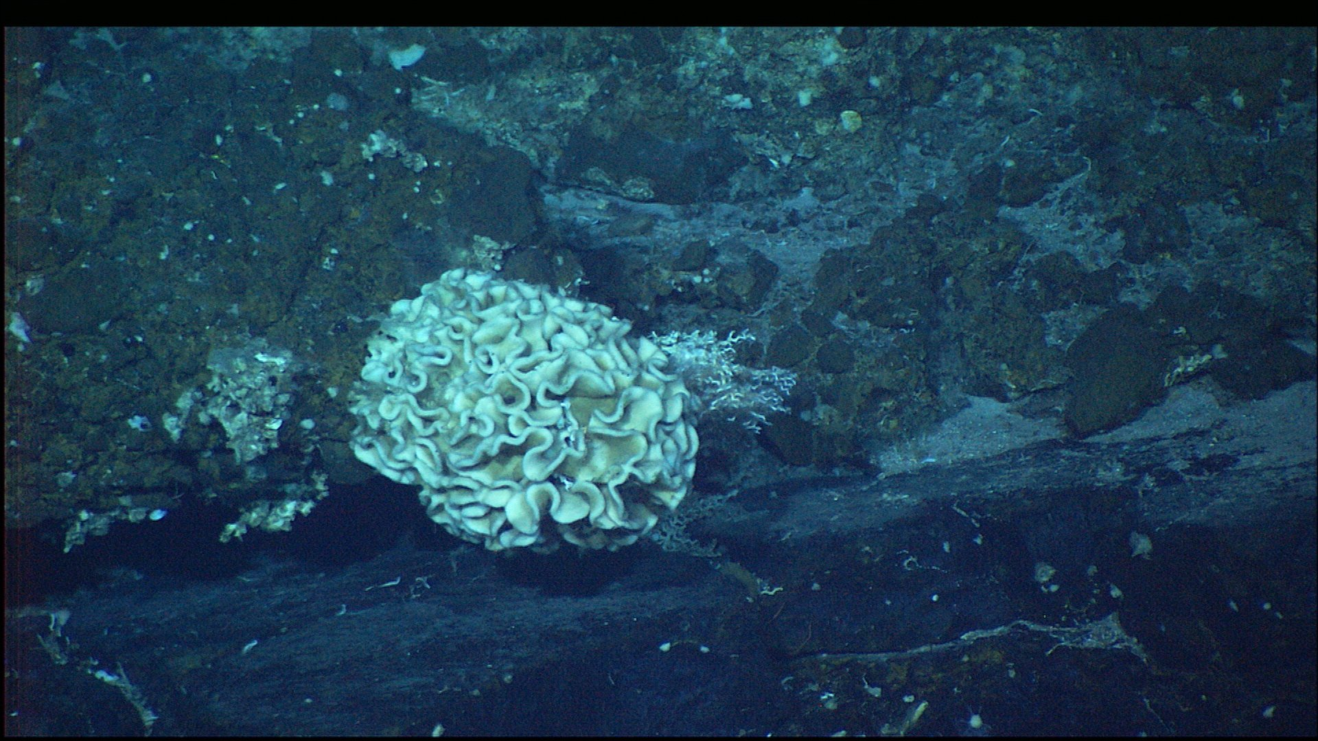 A large 20-cm wide Xenophyophore. Xenophyophores are single cell animals called protists. As benthic particulate feeders, xenophyophores normally sift through the sediments on the sea floor and excrete a slimy substance; in locations with a dense population of xenophyophores, such as the bottom of trenches, their density may be as high as 2000 per 100 square meters. Atlantic Ocean, Mid-Atlantic Ridge.